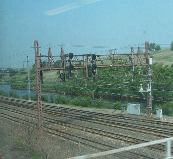 The tracks of kearny connection are electrified, and surrounded by picturesque setting.